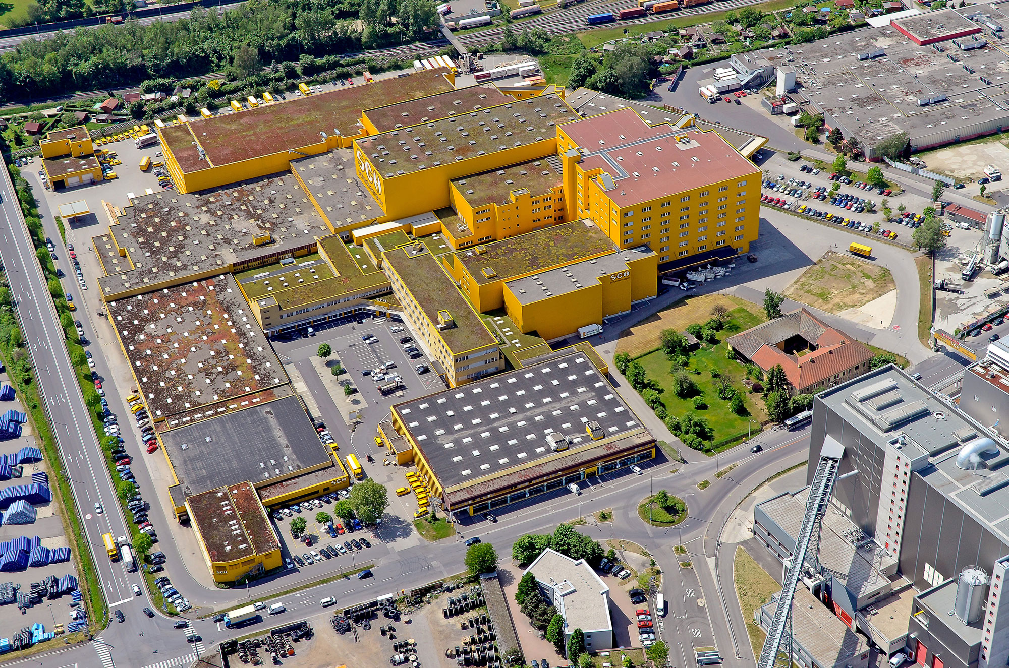 Schachermayer-Großhandelsgesellschaft ; Luftaufnahme